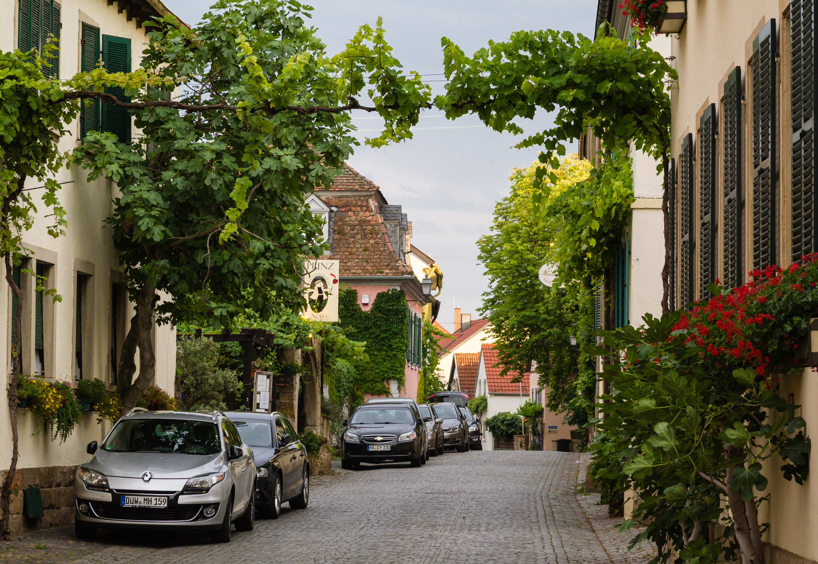 Designation: Monument zone village centre Location: Weinstraße House number: 51 - 30 Place: Forst an der Weinstraße, District Bad Dürkheim, Rhineland-Palatinate Construction time: 17th to 19th century Description: Expansion of the linear settlement around 1850, rich uniformly grown wine village. Wineries usually by the type of incomplete U-shaped farm, farm estates of the 17th to 19th century.